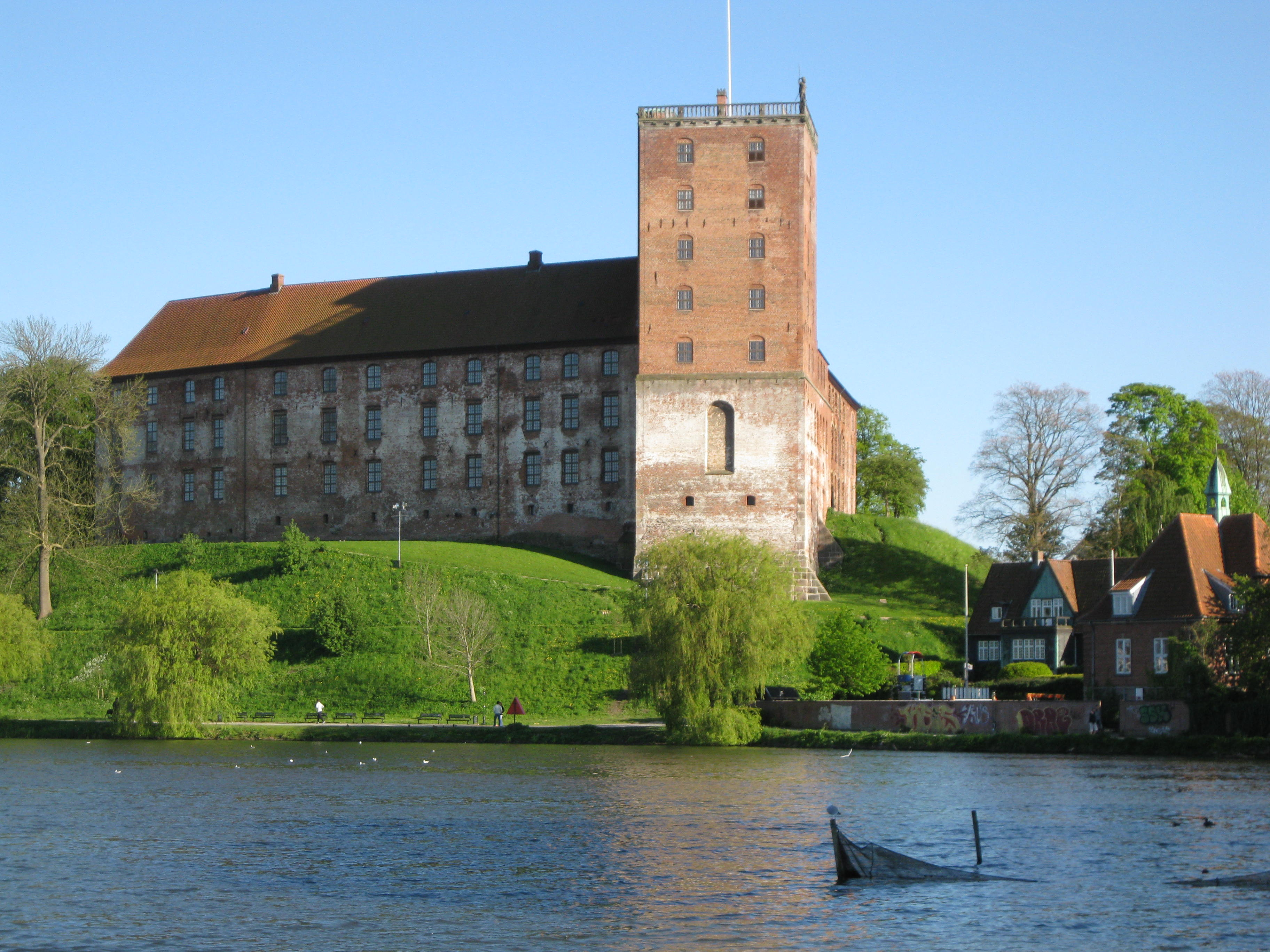 The castle "Koldinghus" in the city of "Kolding". It is located in South-Central Jutland, Denmark.